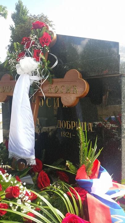 This is my photo of the grave of Dobrica Ćosić, taken at his funeral on May 20, 2014.